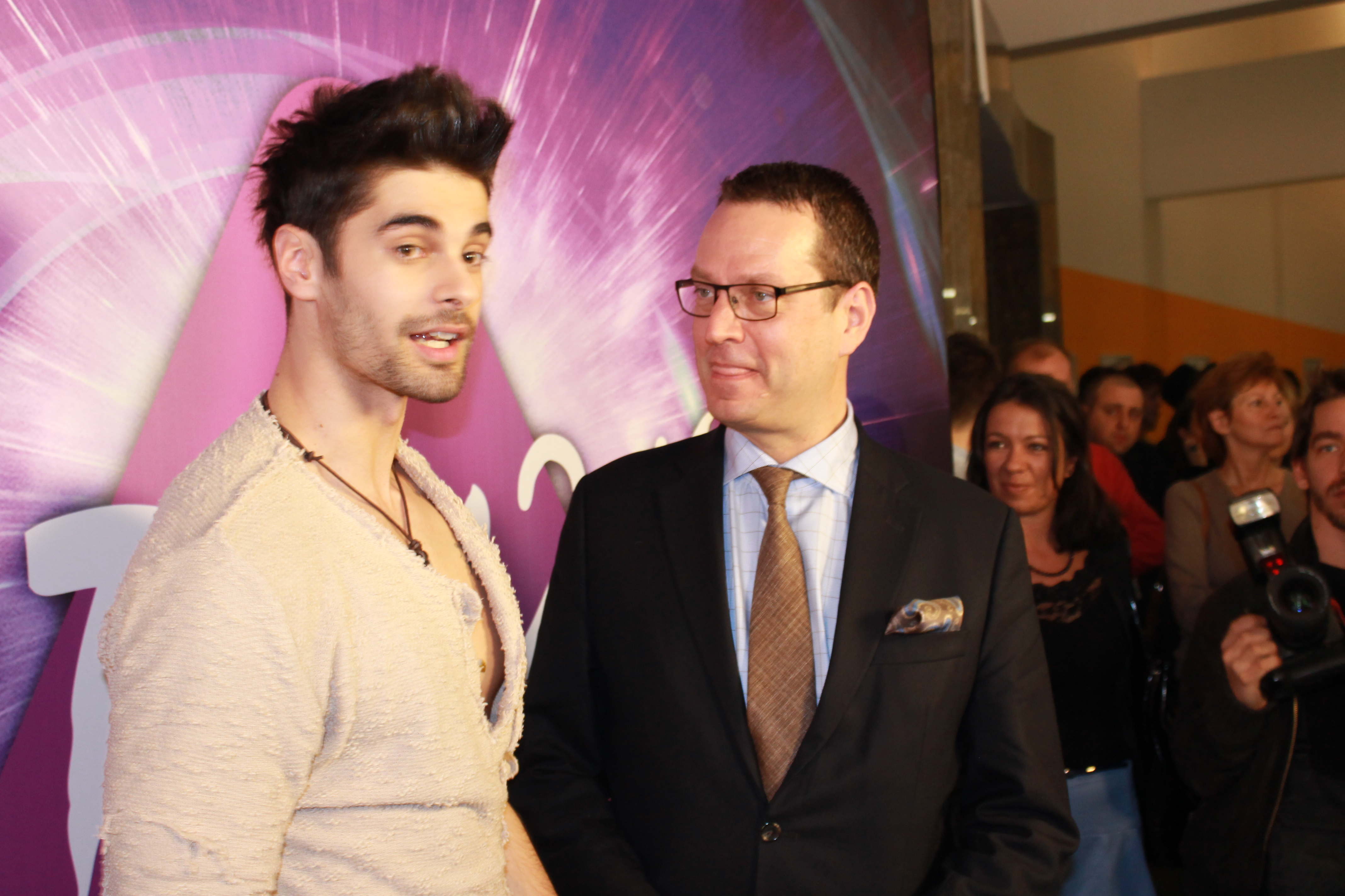 A Dal 2016 winner: Freddie, with the Swedish ambassador of Hungary, Niclas Trouvé